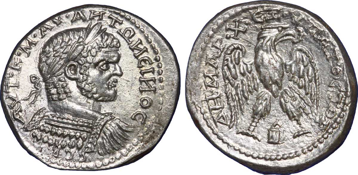 Monnaie frappée en la cité d'Edesse